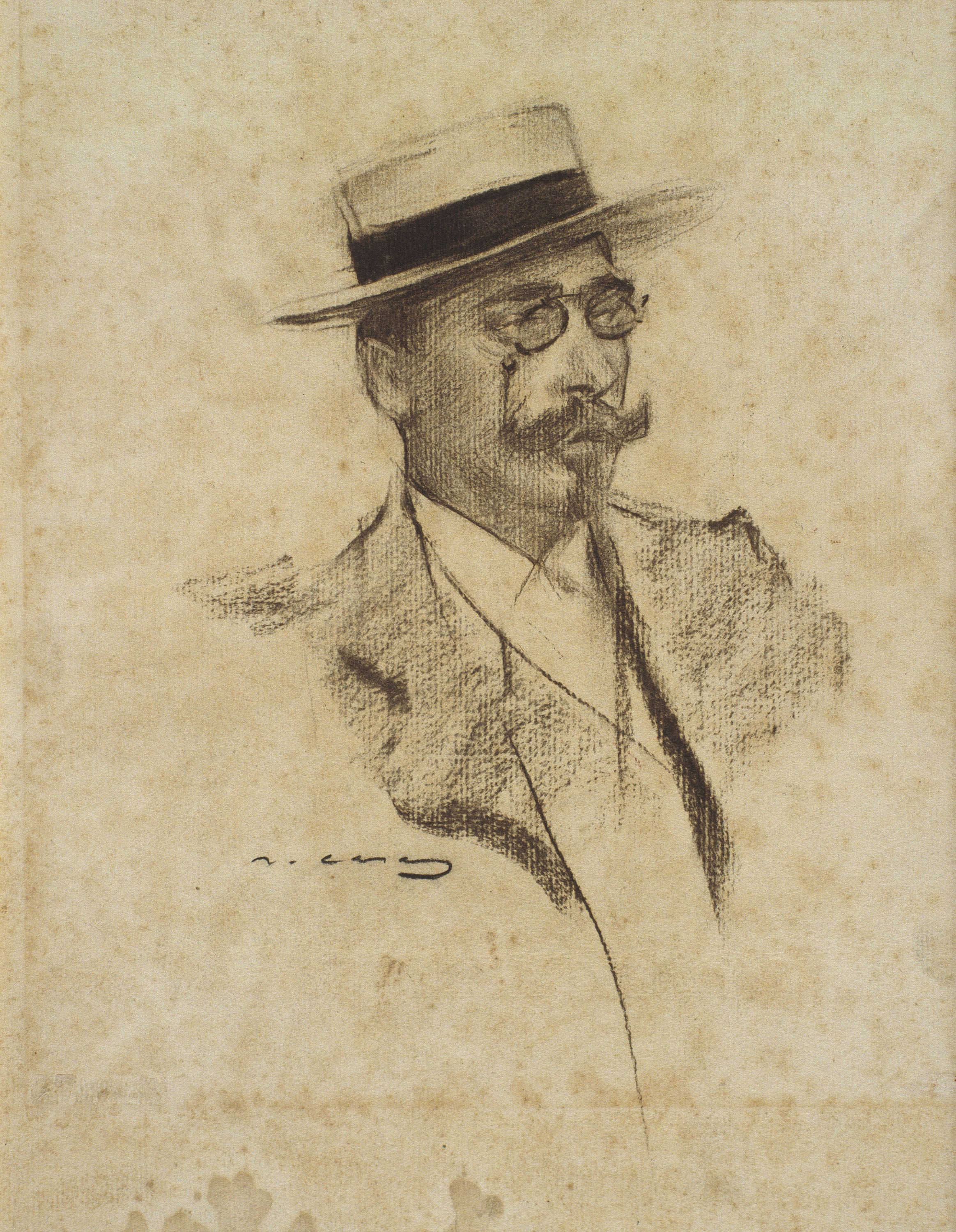 Portrait by Ramon Casas conserved at MNAC in Barcelona. Imagen 121